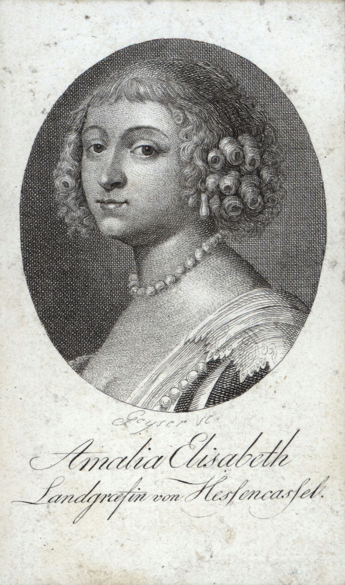 Portrait of Countess Amalie Elisabeth of Hanau-Münzenberg